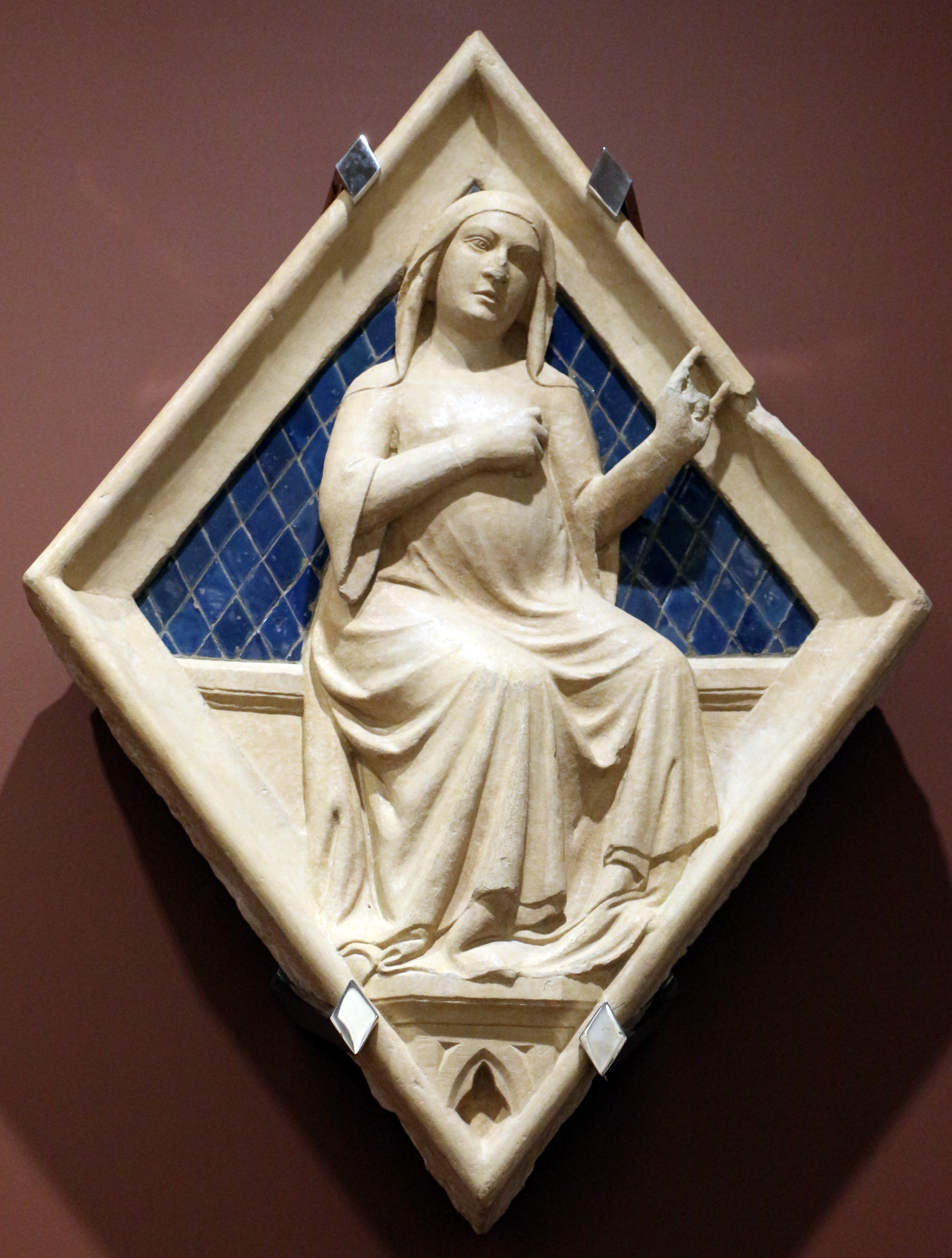 Reliefs of the Giotto's Belltower